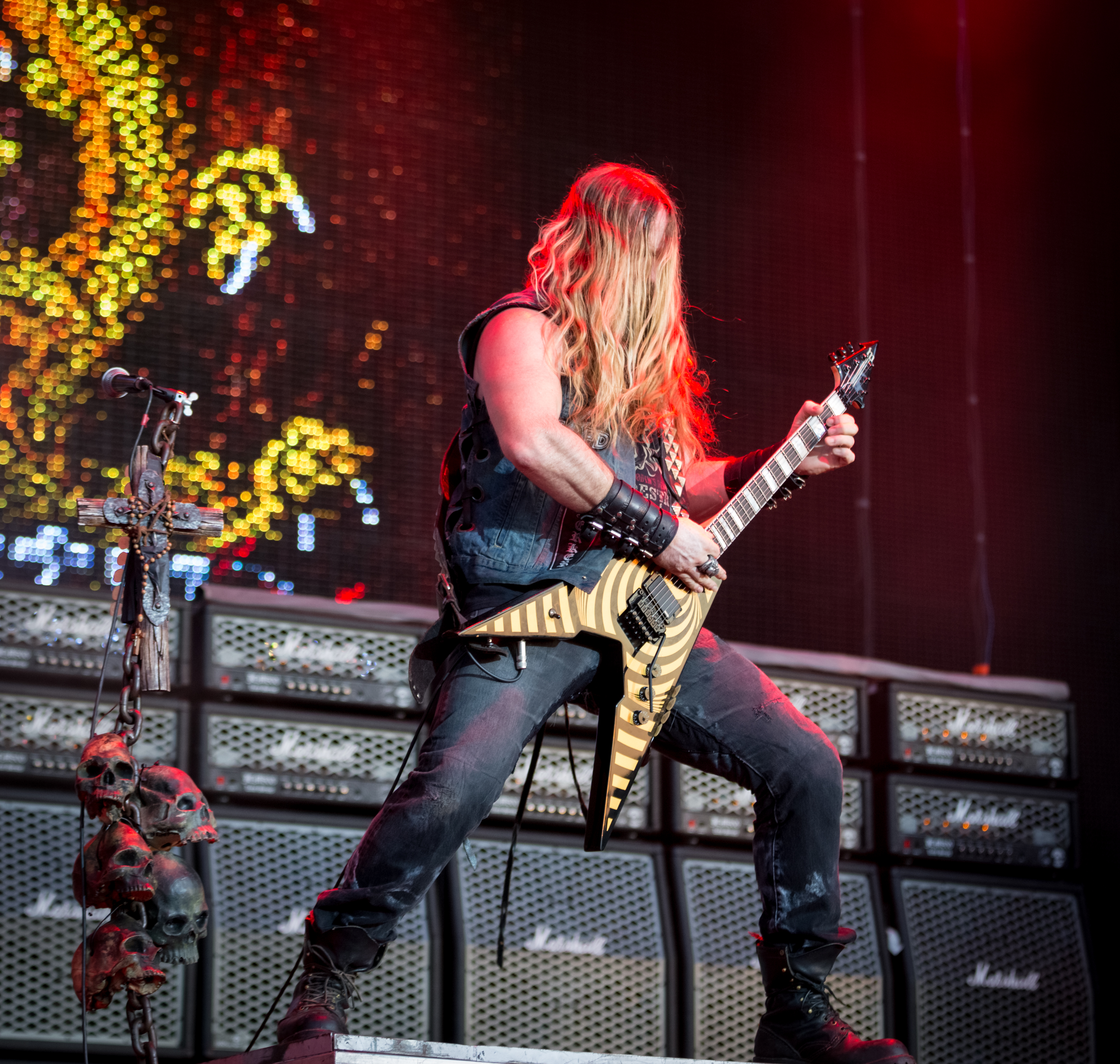 Black Label Society - Wacken Open Air 2015